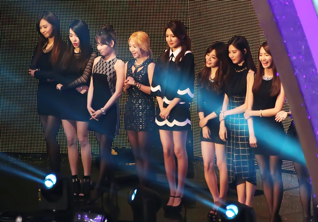 Girls' Generation at the Seoul Music Awards on January 23, 2014.